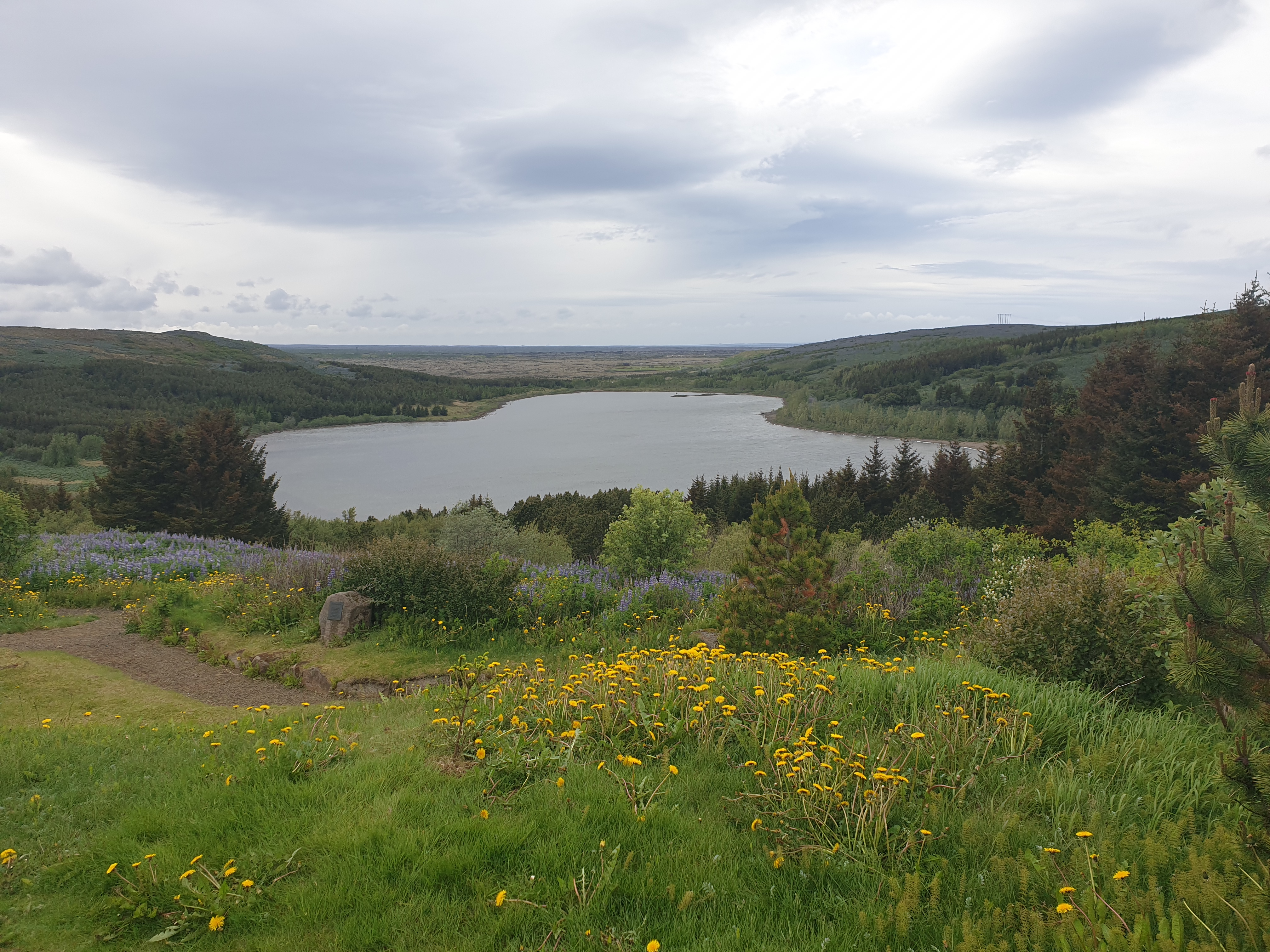 Hvaleyrarvatn